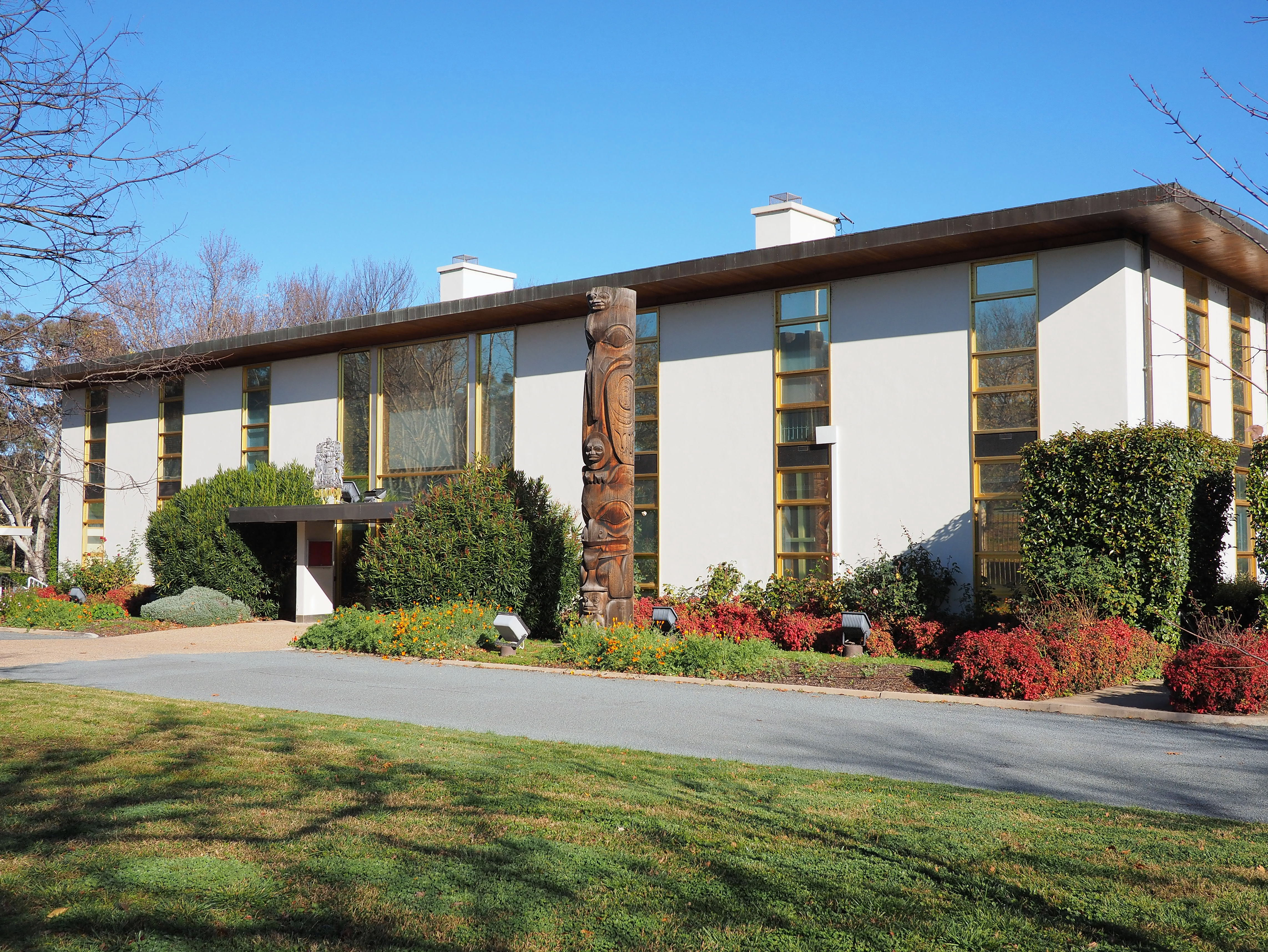 The eastern (street) face of the Canadian High Commission in Canberra